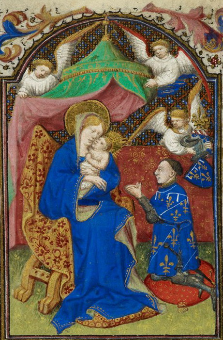 The Virgin and Child with a kneeling Jean Comte de Dunois in armour. (British Library, British Library, Yates Thompson 3 f. 22v)